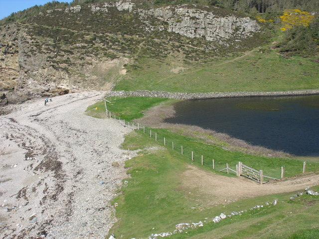 Shingle bar at Ynys y Fydlyn This shingle bar traps the waters of Llyn y Fydlyn